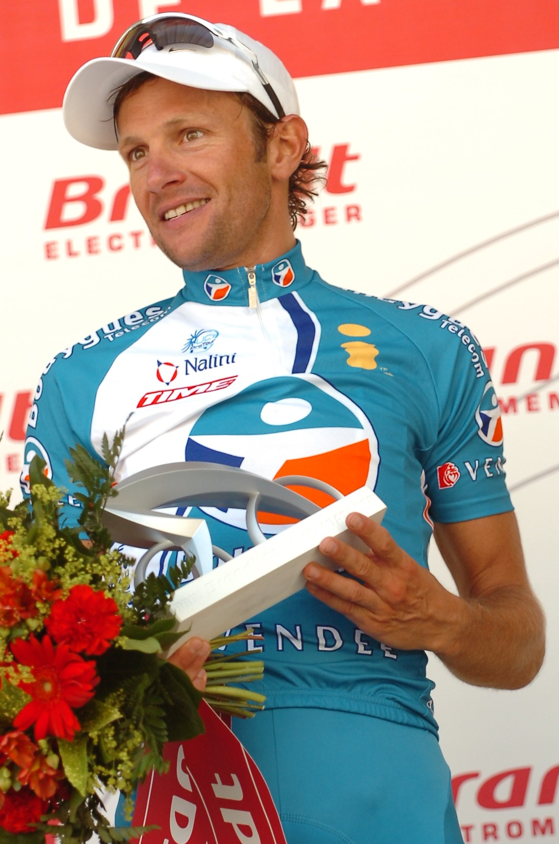 bouygues telecom prix de la combativité *** Local Caption *** beneteau (walter)